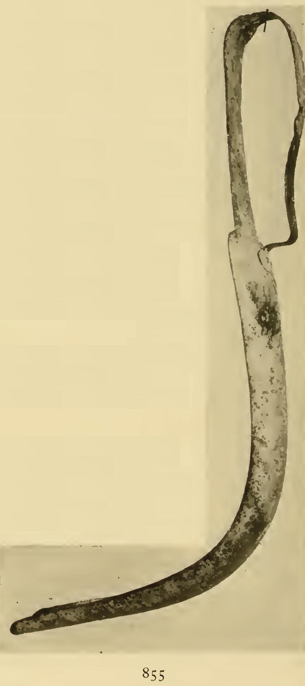 Bronze strigil